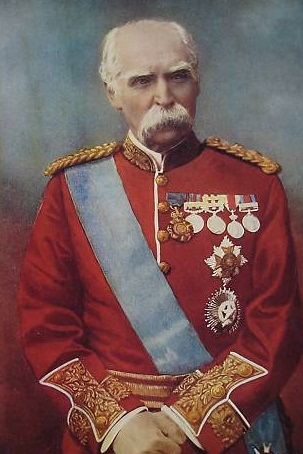 "Field Marshal Sir Donald Martin Stewart (Governor, Royal Hospital, Chelsea)", coloured lithograph from an original portrait, by Elliott & Fry, Baker Street, London, circa 1899